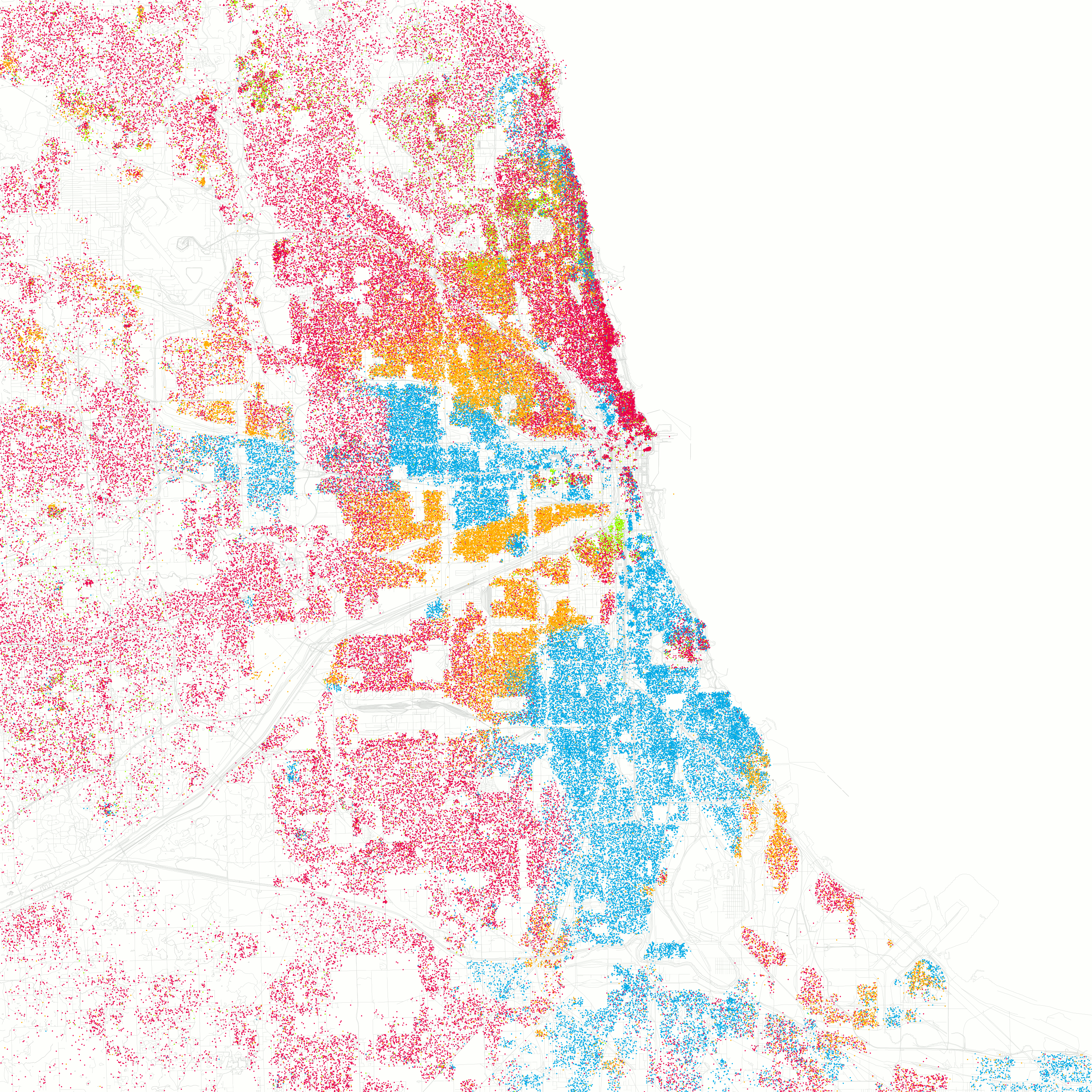 [Eric Fischer] was astounded by Bill Rankin's map of Chicago's racial and ethnic divides and wanted to see what other cities looked like mapped the same way. To match his map: Red is White, Blue is Black, Green is Asian, Orange is Hispanic, Gray is Other Each dot is 25 people. Data from Census 2000. Base map © OpenStreetMap, CC-BY-SA